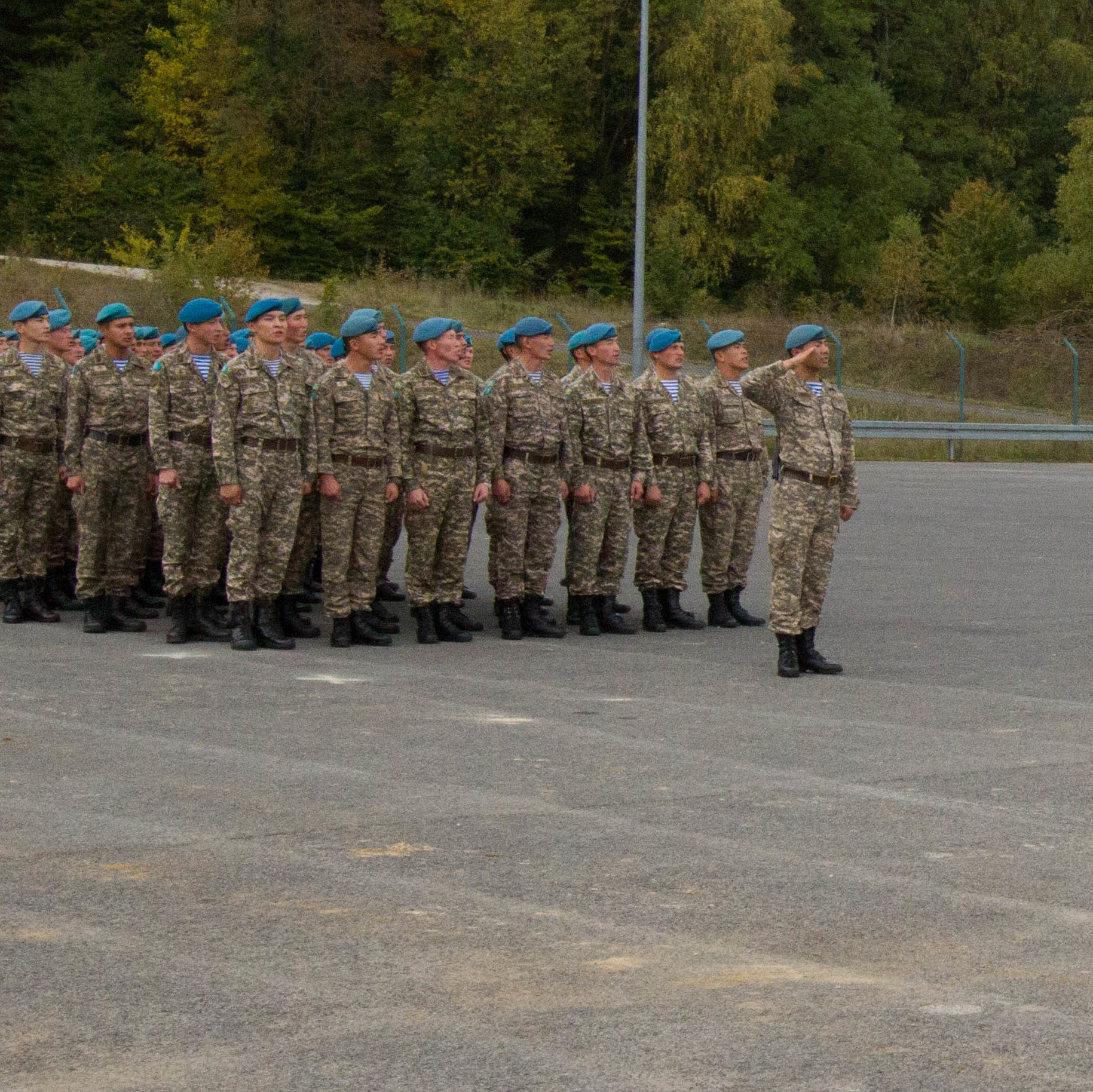 Soldiers from five countries who participated in Steppe Eagle 2014 stand in formation behind a color guard bearing their national flags during the closing ceremony here Oct. 13, 2014. Steppe Eagle is an annual multi-lateral exercise conducted by Kazakhstan Ministry of Defense, U.S. Army Central and the Arizona Army National Guard to enhance their peacekeeping and peace support operation capabilities. (U.S. Army photo by Sgt. Tracy R. Myers, U.S. Army Central)